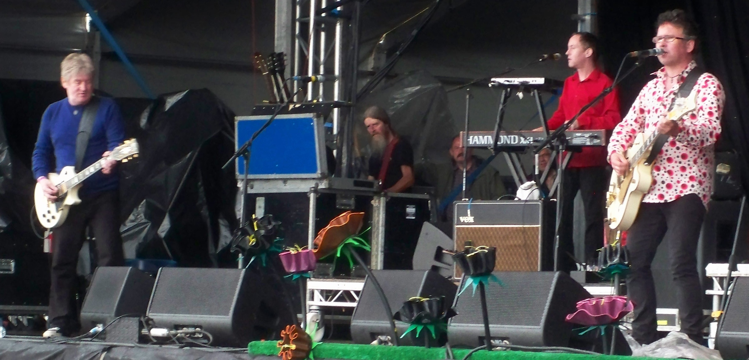 The Saw Doctors performing on the main stage at Guilfest 2011.